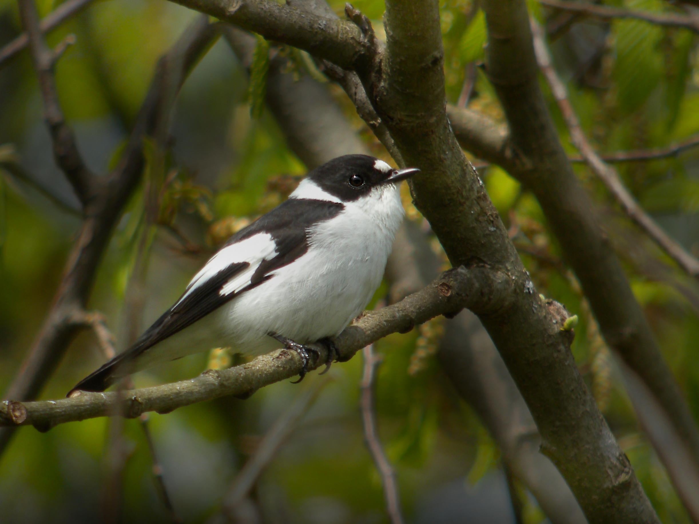 Collared Flycatcher Ficedula albicollis, male, Białowieża Forest, Poland